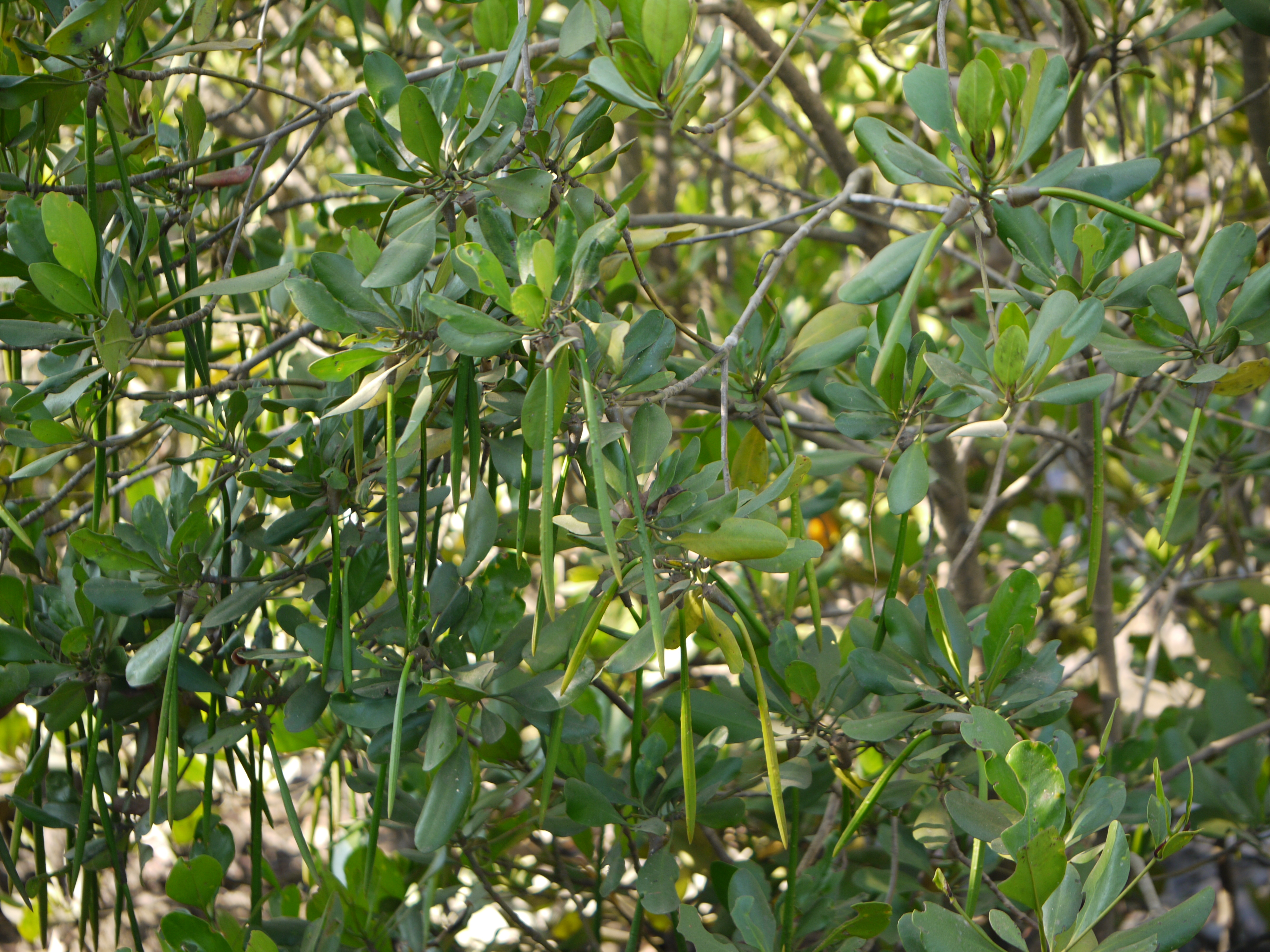 Rhizophoracea (Burma mangrove family) » Ceriops tagal SARE-ee-ops -- from the Greek keros (wax) and ops (tablet) TAH-gal -- perhaps derived from tangal, the name of the plant in Tagalog commonly known as: compound-cymed mangrove, spurred mangrove, tagal mangrove, yellow mangrove • Bengali: mat goran • Hindi: goran • Malayalam: ആനക്കണ്ടല്‍ aanakkantal • Marathi: चौरी chauri, किरारी kirari • Oriya: gari goran, gartah • Sinhalese: punkanda, rathugas • Tamil: பன்றிக்குத்தி pandi-k-kutti • Telugu: gatharu, gedera Distribution: e Africa, Indian subcontinent, tropical Asia, n Australia, Pacific islands References: Flowers of India • Vanasampada • bioSearch • Noosa's Native Plants • DDSA